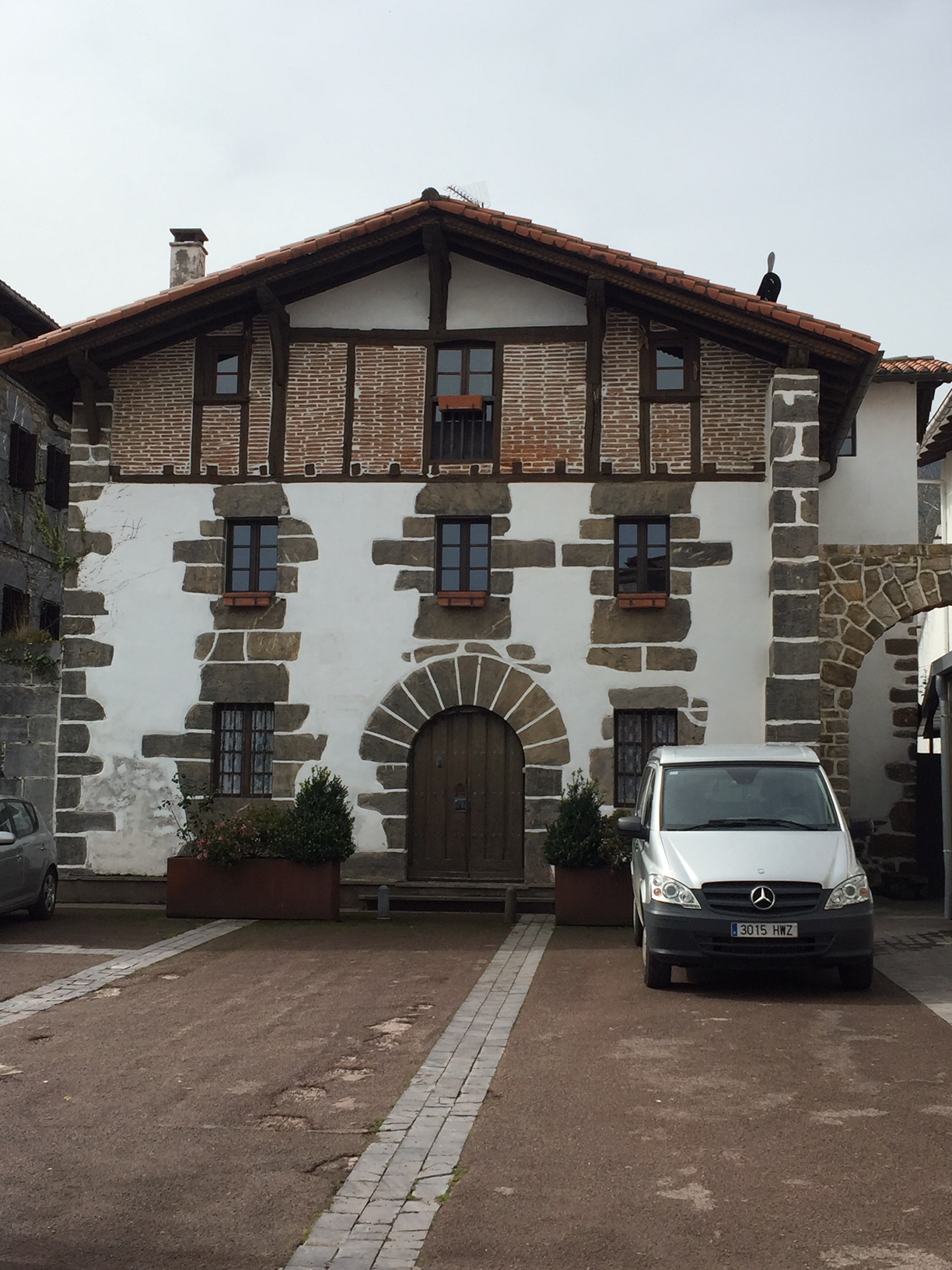 Mendiko etxe manor, Alkiza